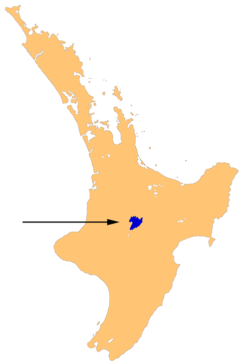 Location map of Lake Taupo, New Zealand